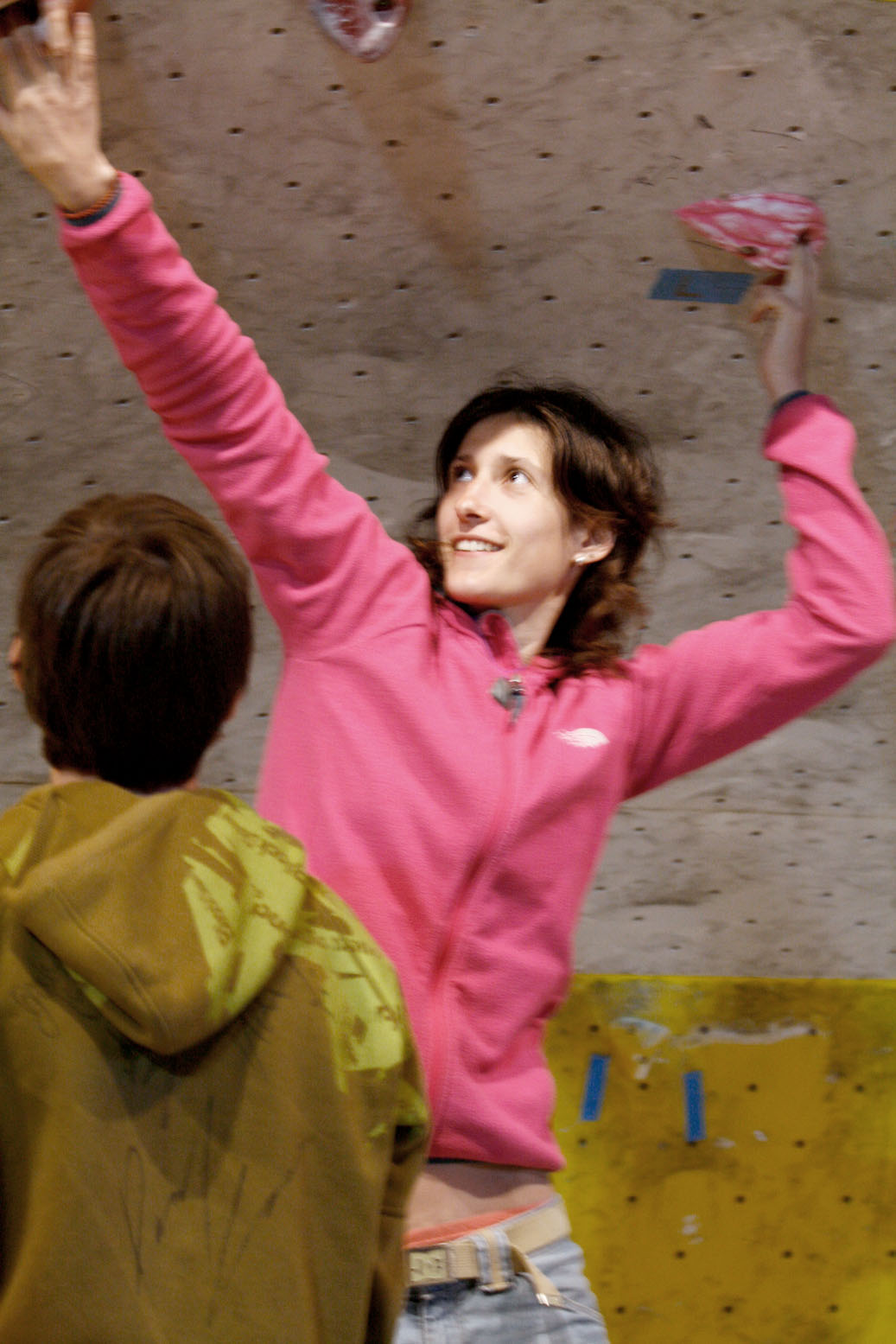 Alexandra Balakireva after the finals at the IFSC Boulder Worldcup Vienna 2010.